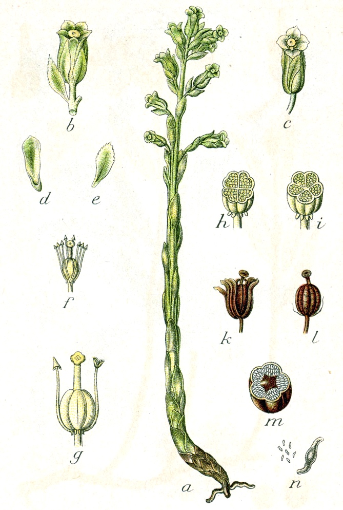 Monotropa hypopitys L. s. str. Original Caption Fichtenspargel, Monotropa hypopitys